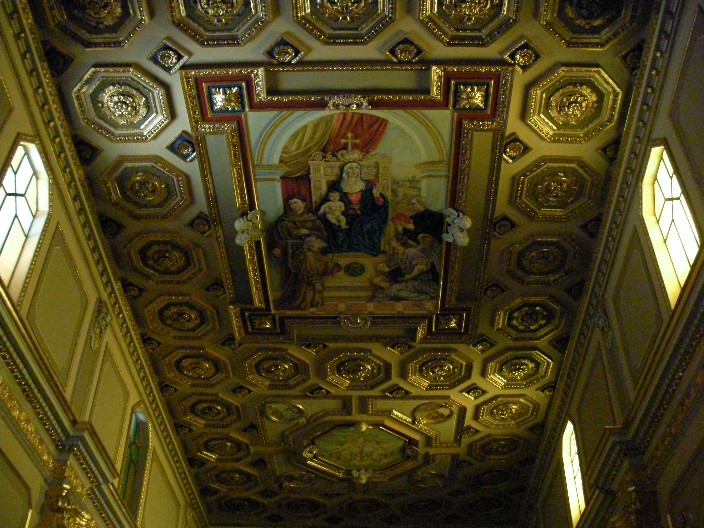 The ceiling of the church of Saint Maria degli Angeli to Atessa